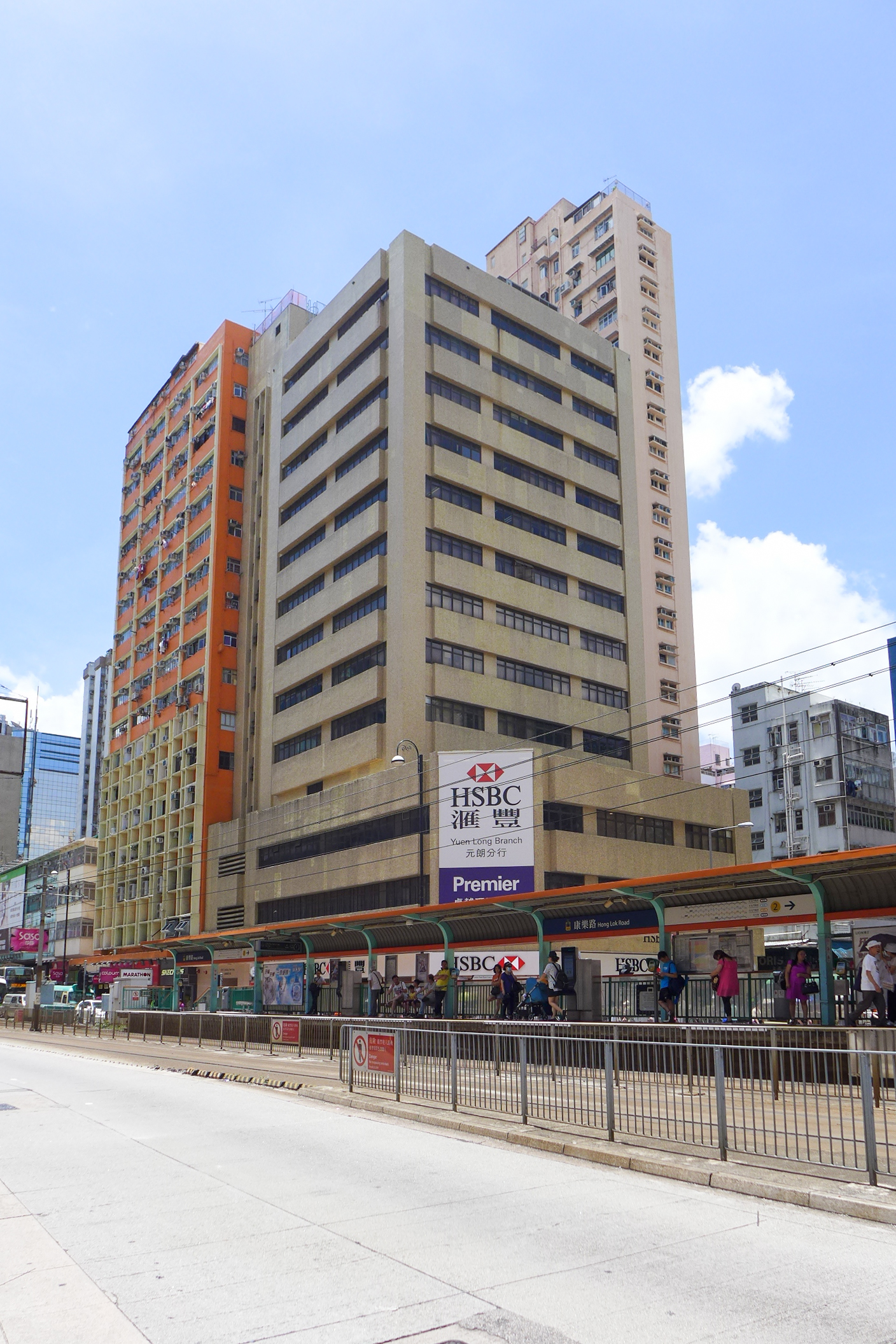 HSBC Building Yuen Long